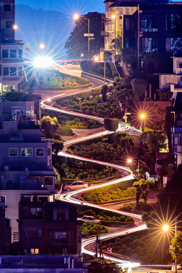 Lombard Street is one of the most visited street in San Francisco. This is a different point of view from Coit Tower to see how the crookedest street at night with these cars going down hill. It is best known for the one-way section on Russian Hill between Hyde and Leavenworth Streets, in which the roadway has eight sharp turns (or switchbacks) that have earned the street the distinction of being the crookedest "most winding "street in the world (though this title is contested). The focal length of this shot is 840mm by a long lens :)